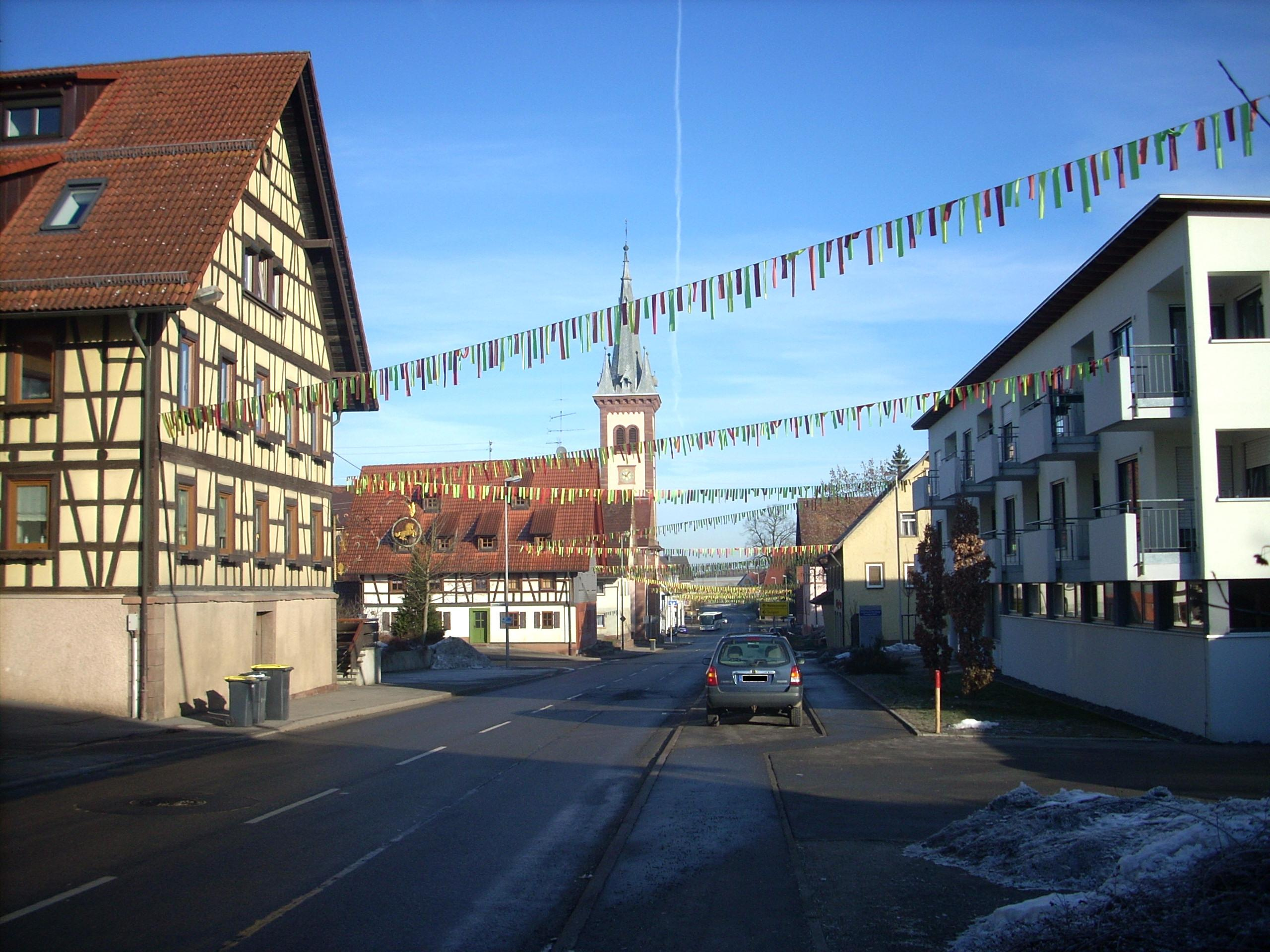 "Freudenstädter Street" in the Dunningen district Seedorf with the Catholic church St. George in the background